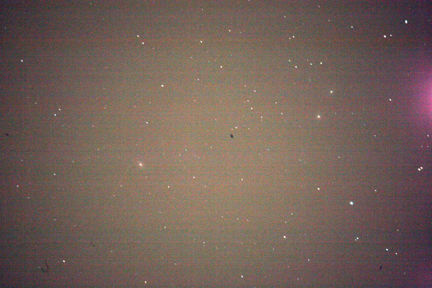 Sensor glow on a long exposure shot